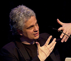 portrait photo